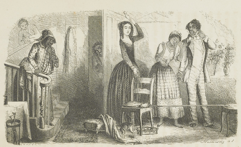 Emily Clemens Pearson (pseudo. Pocahontas), Cousin Francks Household, or, Scenes in the Old Dominion (Boston, 1853), facing p. 169